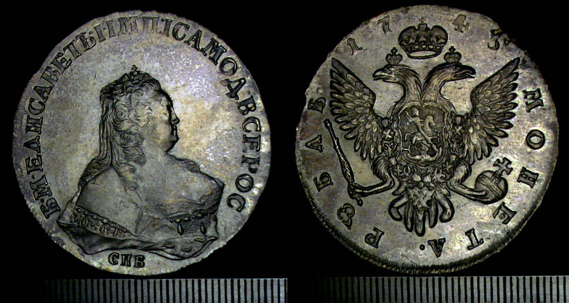 Rubl 1745